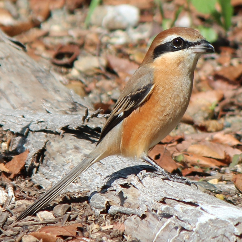 Lanius bucephalus (Bull-headed shrike), male in Japan.